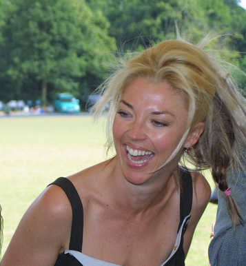 Tamara Beckwith draws the raffle prizes at the 2003 ChildLine polo day at Ham Polo Club, London.